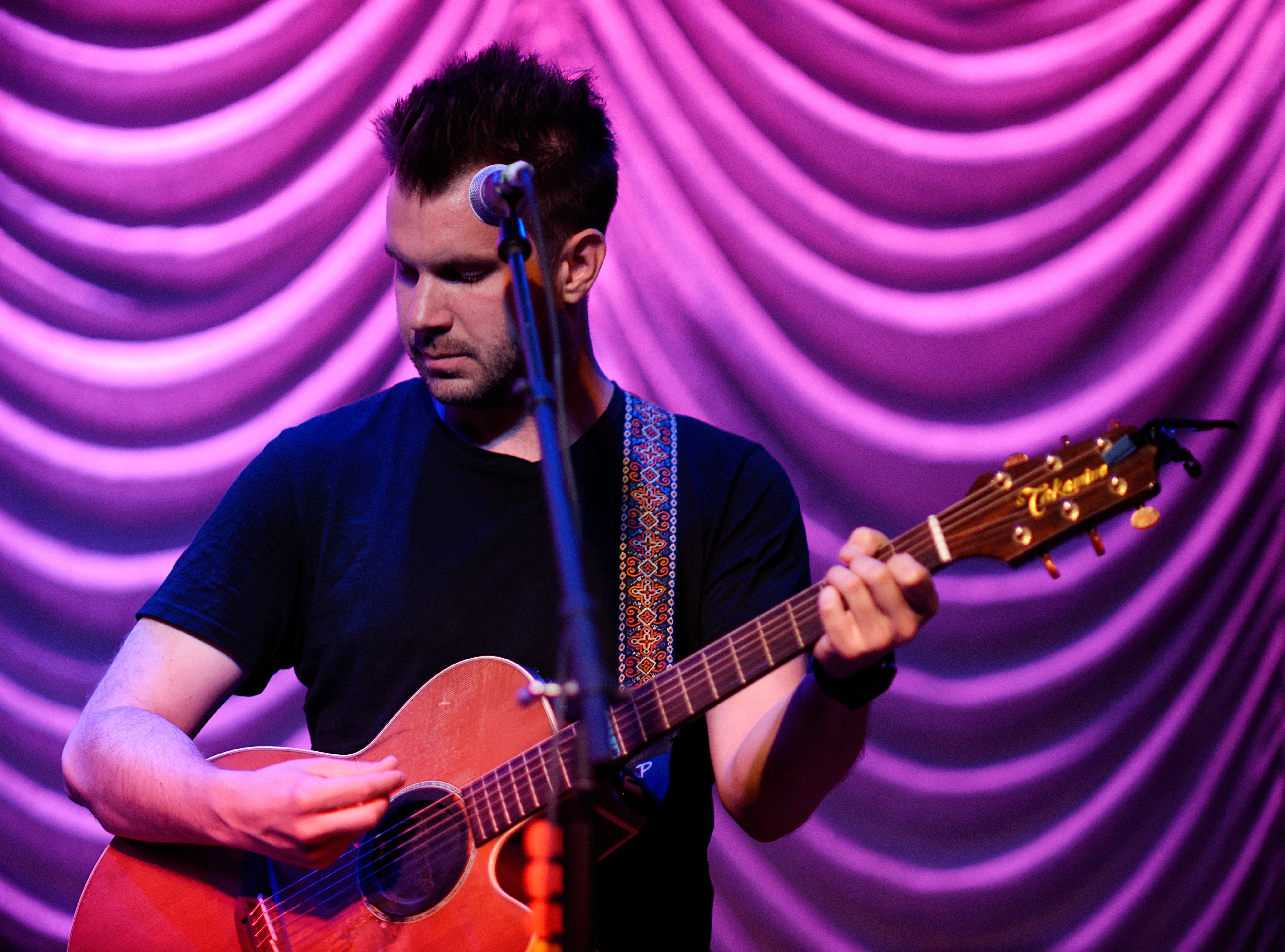 Howie Day performs live at Saint Rocke in Hermosa Beach CA in 2016.